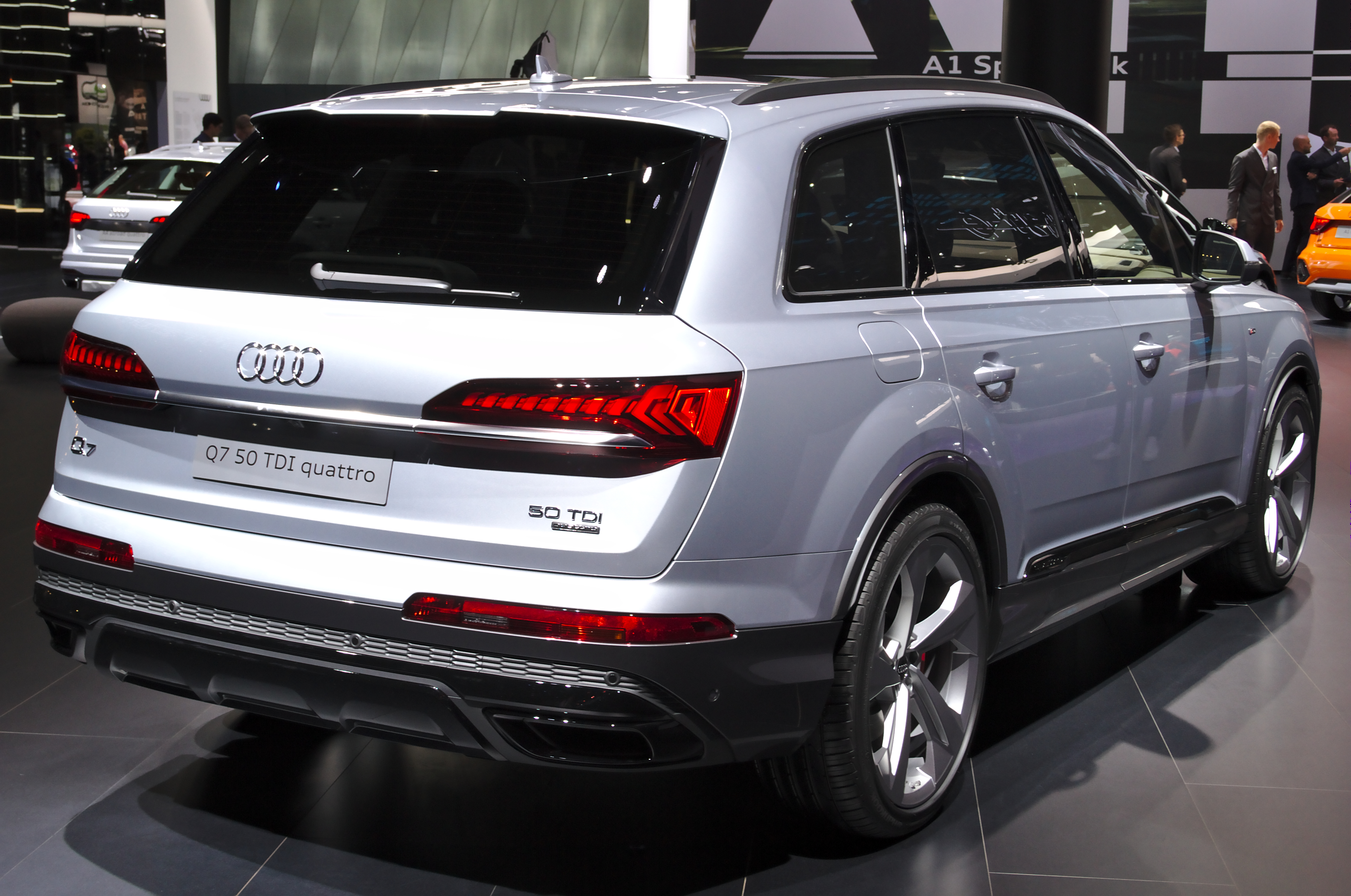 Audi_Q7_(4M) at IAA 2019